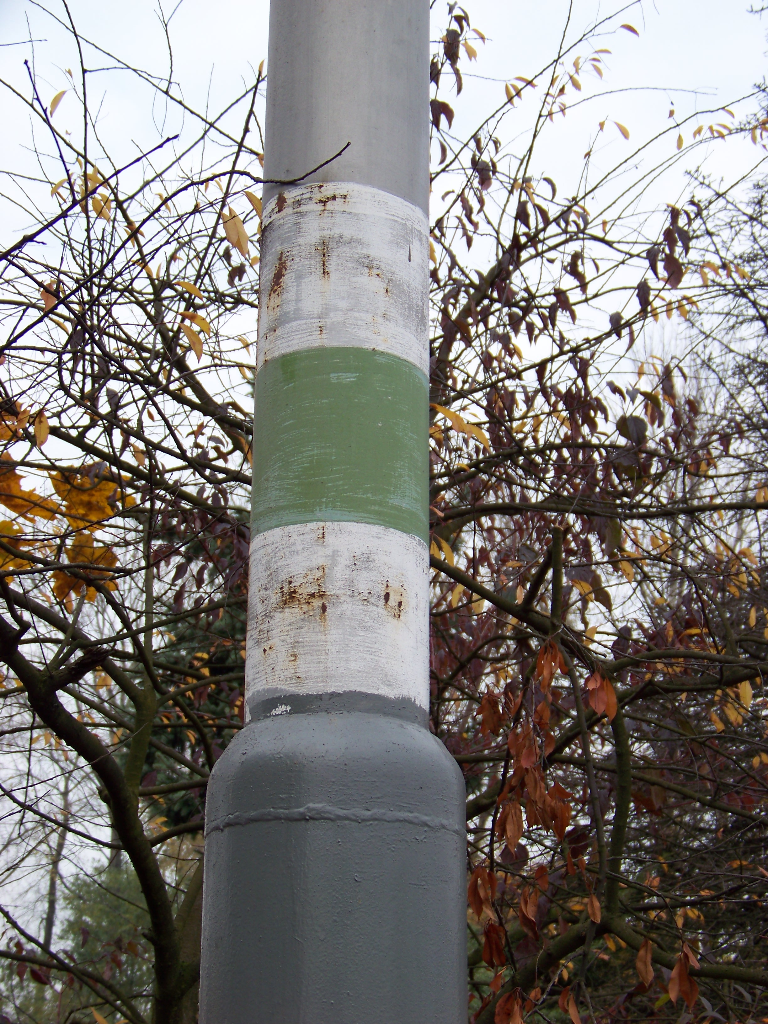 Karviná-Fryštát, Karviná District, Moravian-Silesian Region, the Czech Republic. Nádražní street, a beltway sign on a streetlamp column. - OpenStreetMap(Info)